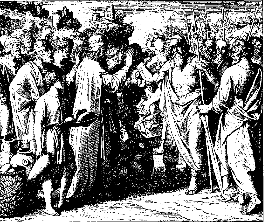 Woodcut for "Die Bibel in Bildern", 1860.